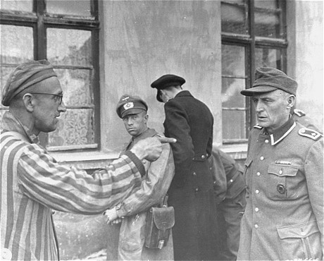 A Russian survivor, liberated by the 3rd Armored Division of the U.S. First Army, identifies a former camp guard who brutally beat prisoners. Original caption reads: "Freed Soviet prisoners of war give testimony against a former fascist guard. 1945."